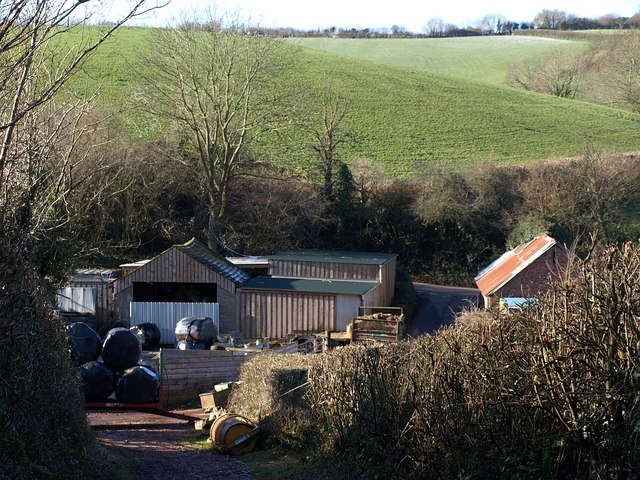 Buildings at Higher Rocombe A view down the last section of the green lane from Gabwell Cross.